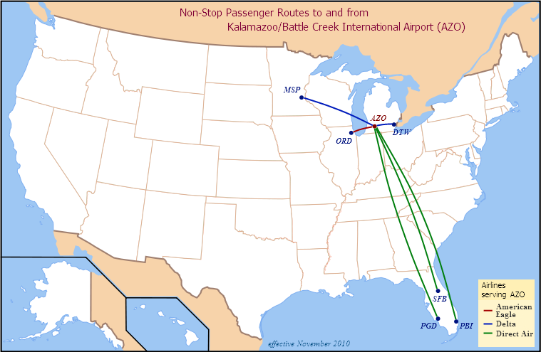 Kalamazoo/Battle Creek International Airport (AZO), Kalamazoo, Michigan, passenger airline route map